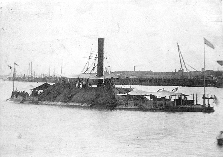 USS Tennessee in 1865 after her capture at the Battle of Mobile Bay. Cropped to remove caption NH60335